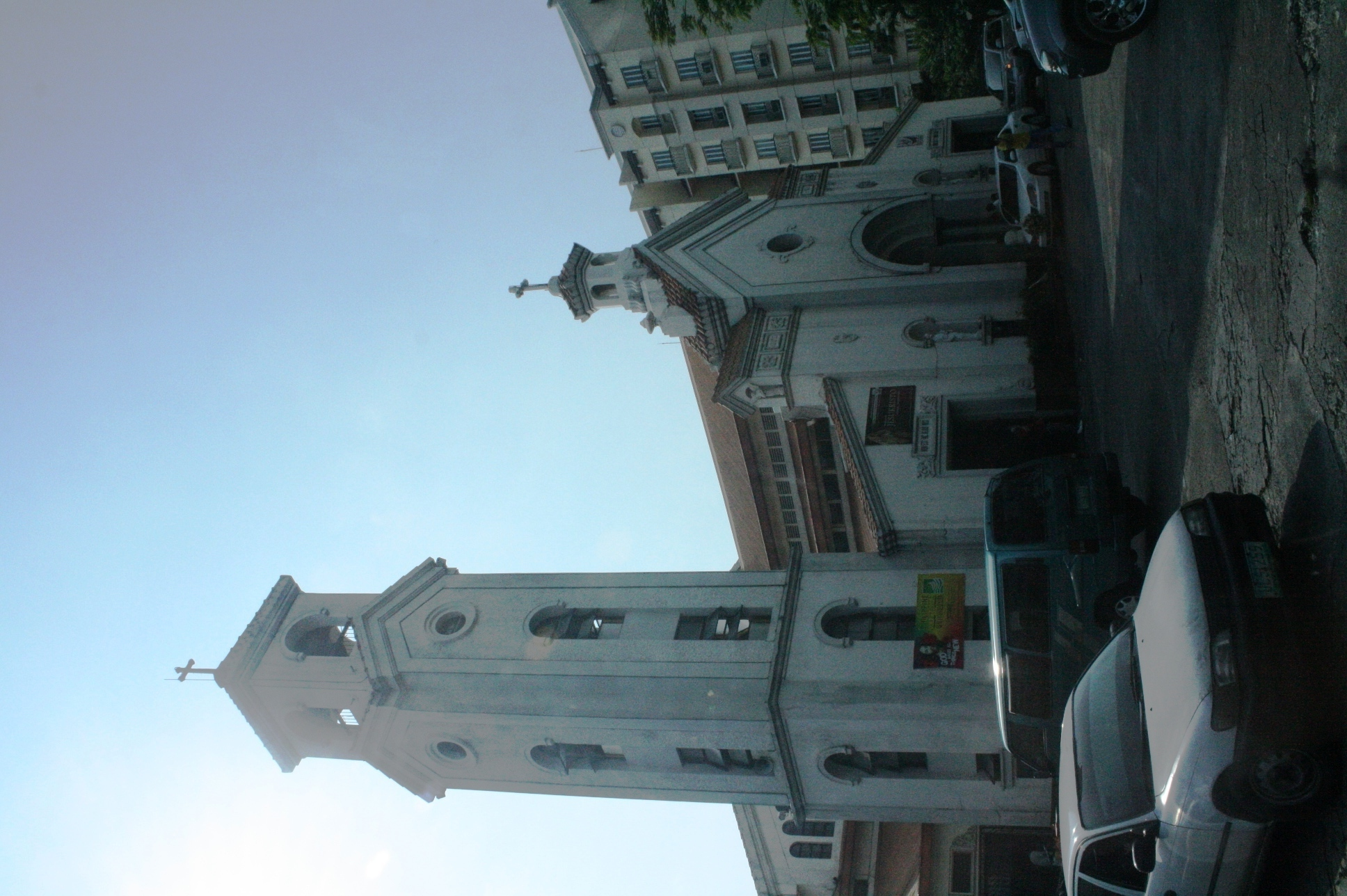 The view of the whole facade.